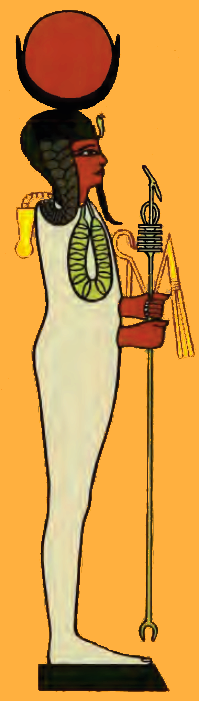 The Egyptian moon-god Iah